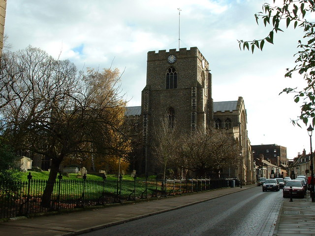 Church of St Mary in Bury St Edmunds, Suffolk, England. A Grade I listed medieval church.